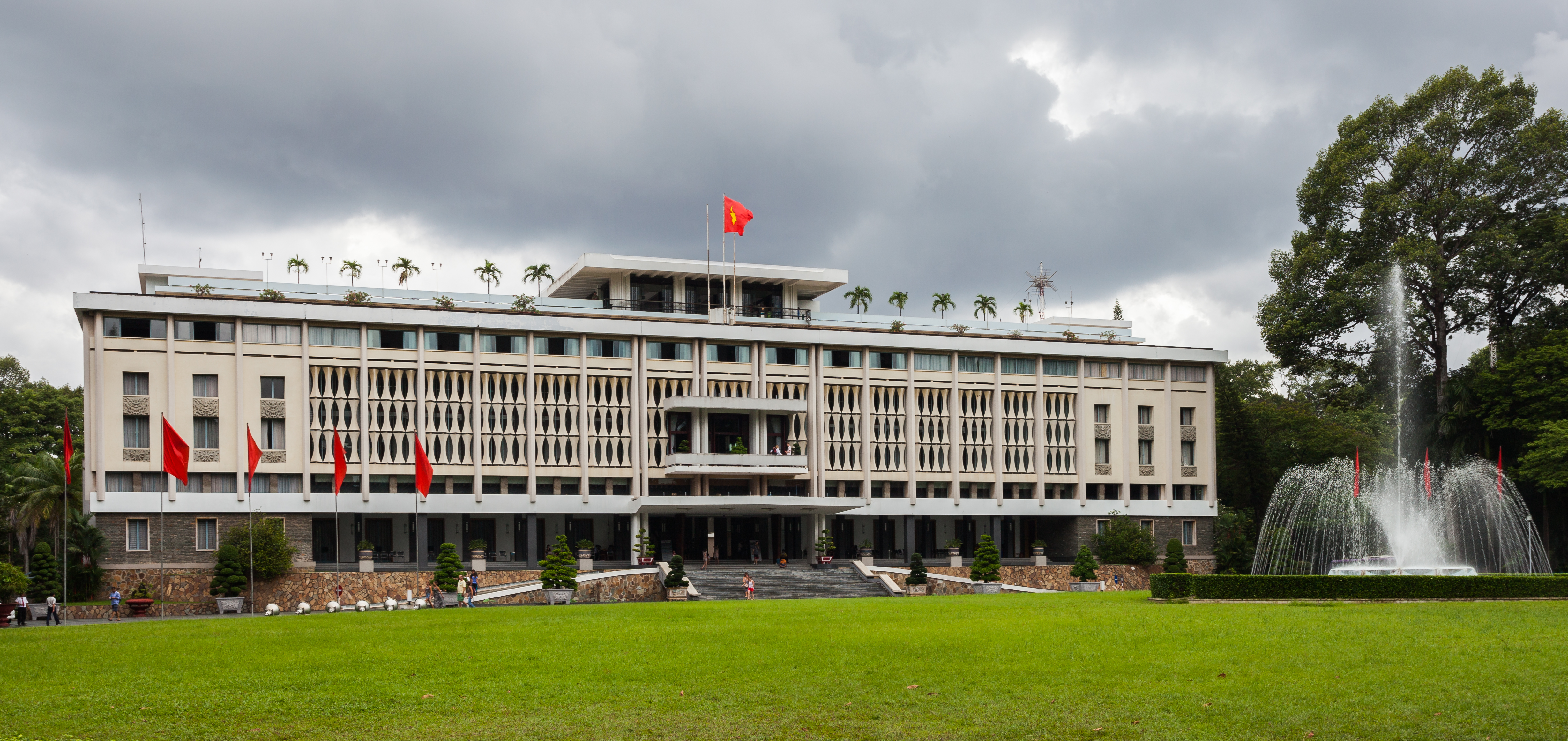 Reunification Palace, Ho Chi Minh City, Vietnam